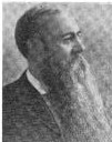 Solomon S Curry, Ironwood MI